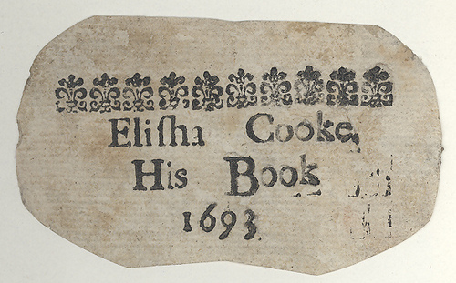 Bookplate, from Houghton Library of Elisha Cooke, Sr.